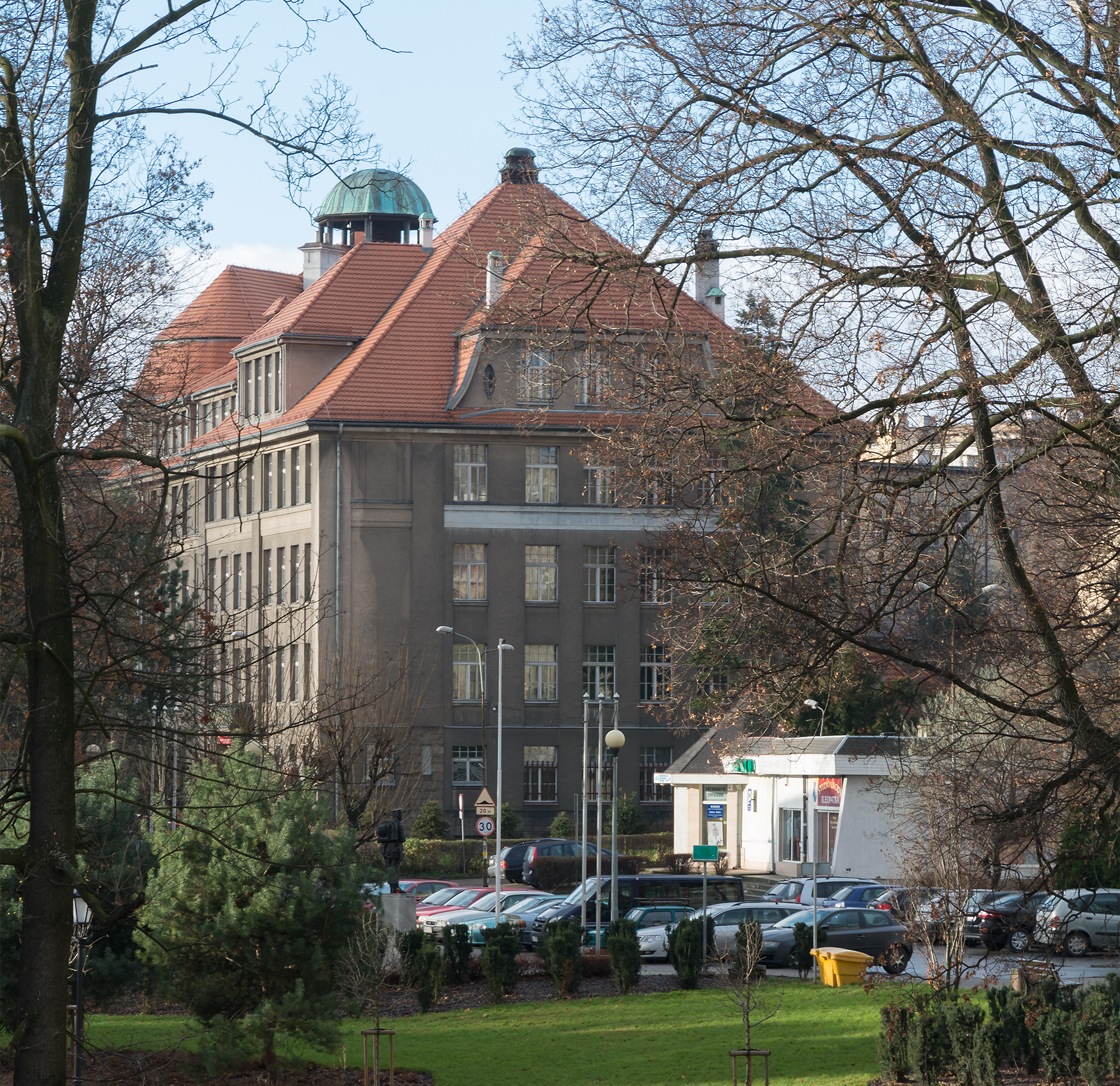 Middle School No. 1 in Kłodzko